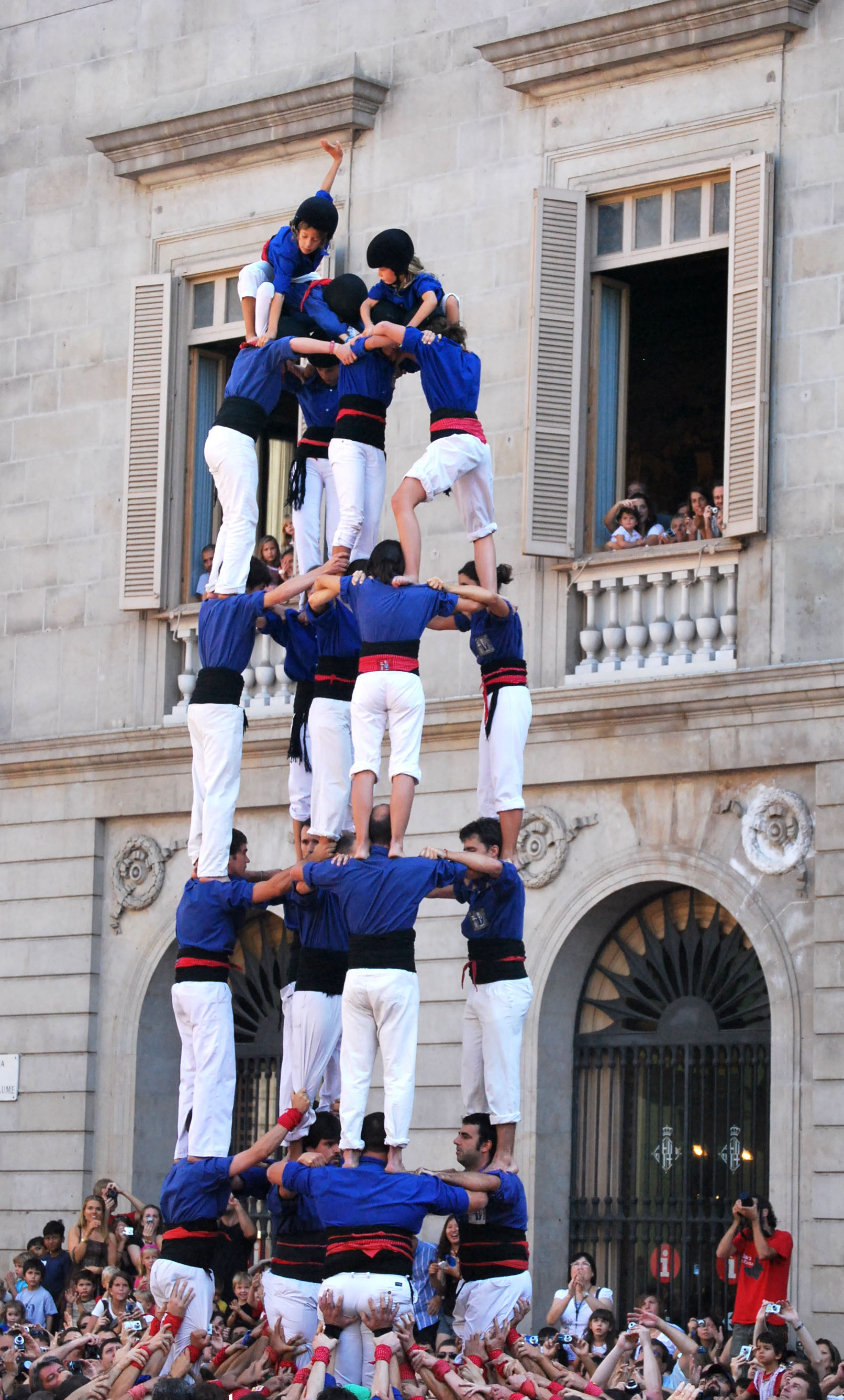 5 de 7 of the Castellers de la Vila de Gràcia in Barcelona (24/09/2009)